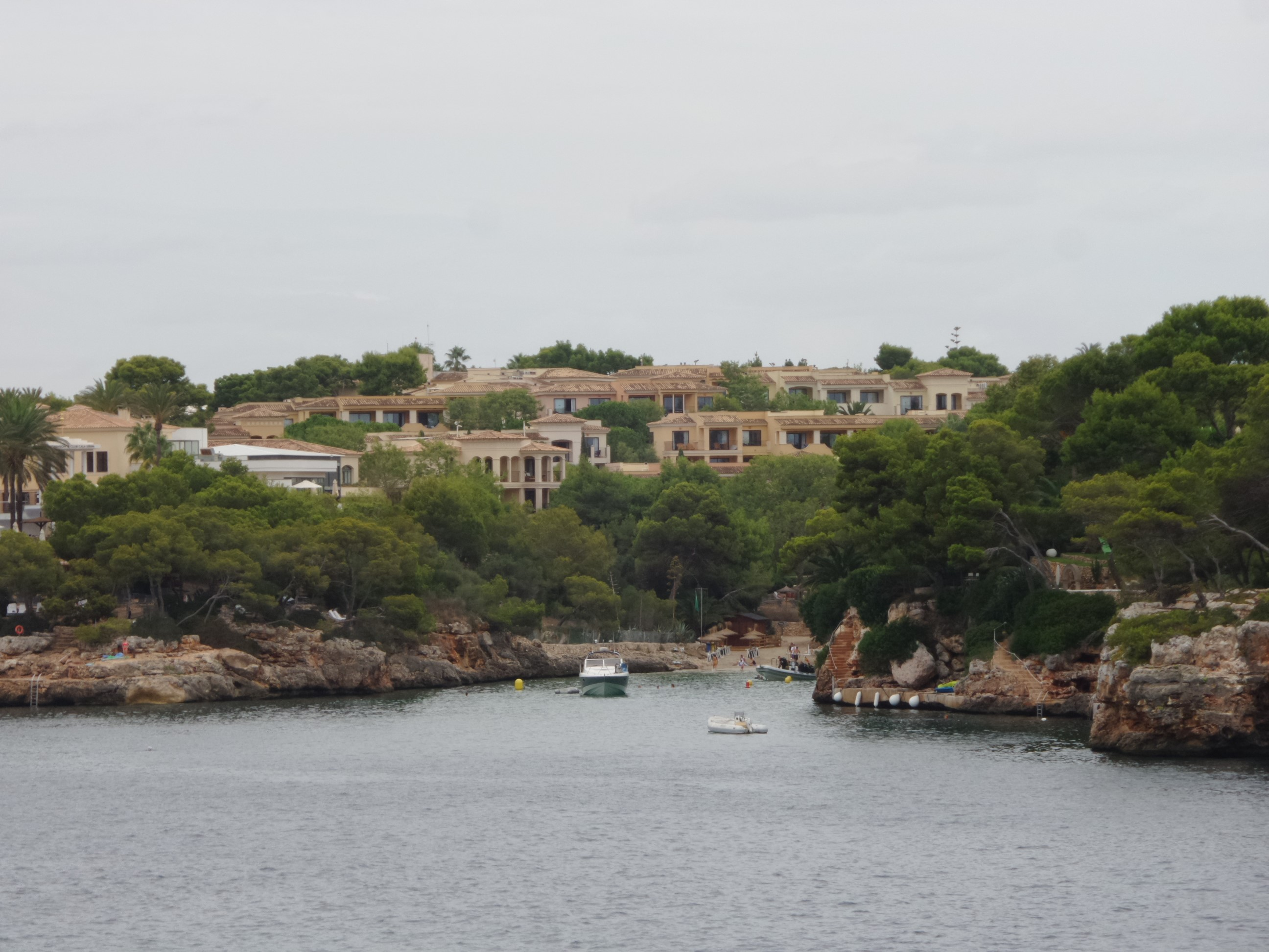 Cala Serena (Bay)